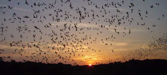 Mexican (or Brazilian) Free-Tailed Bats, Tadarida brasiliensis, emerging from Carlsbad Caverns, Carlsbad Caverns National Park, New Mexico.